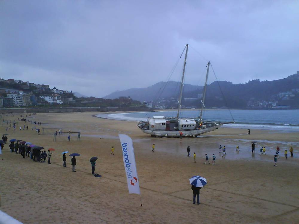 Ship Urdaneta stranded in Kontxa beach, Donostia